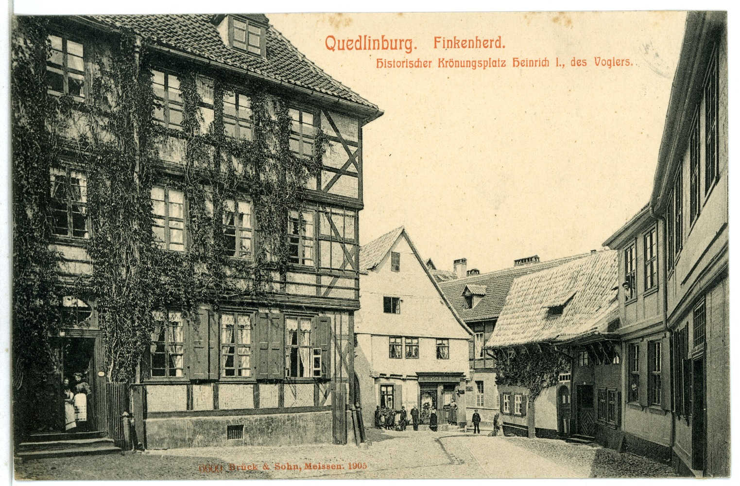 This postcard is from publisher Brück & Sohn in Meißen ( This postcard has a unique number 06609 and is available in a higher resulation at the publisher. This images was uploaded in a cooperation between wikipedians and the publisher.